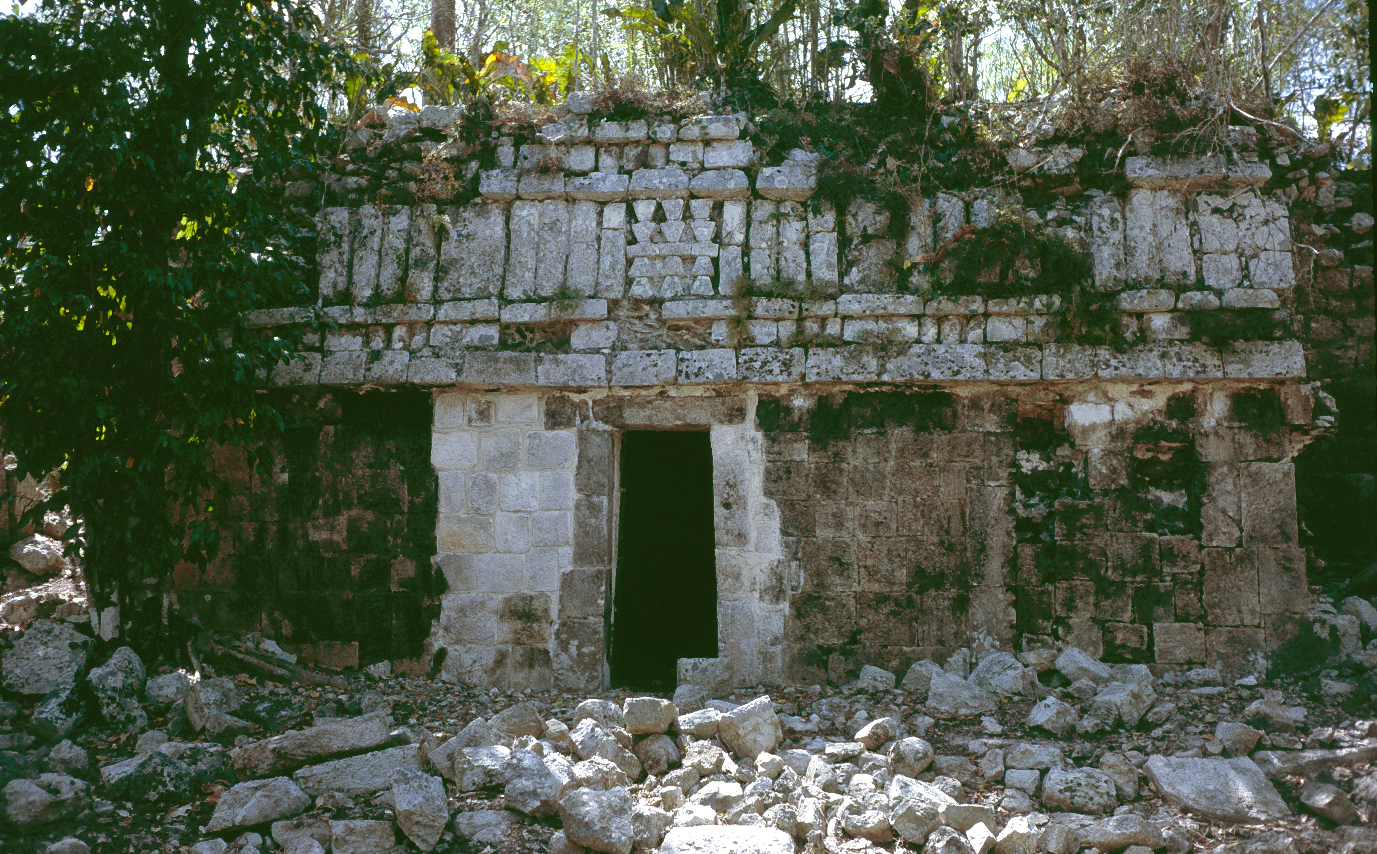 Xkichmook, Yucatan, Mexico: Structure 4